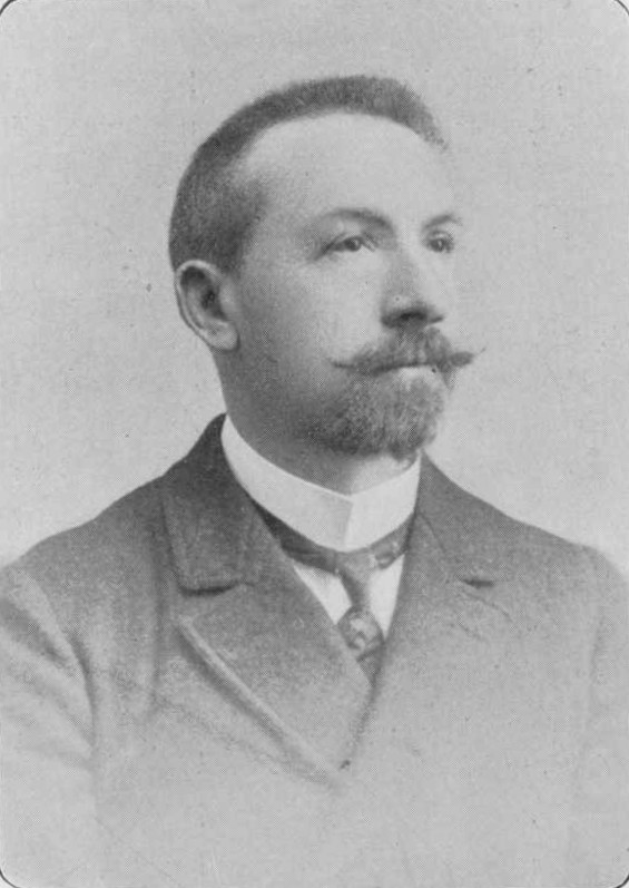 name O. M. F. HAFFMANS.. political affiliationPolitical Catholicism